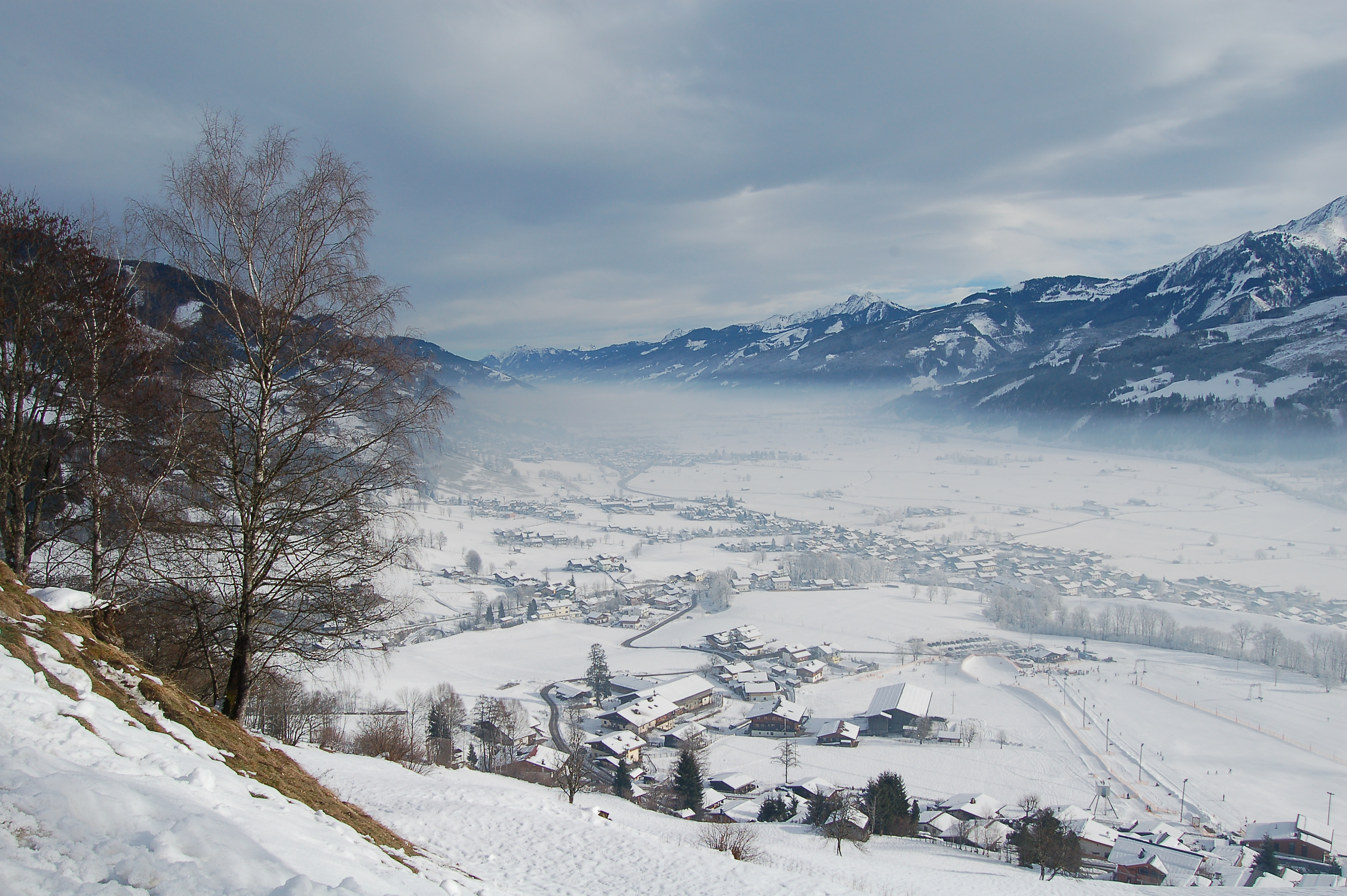 Adventure mountain Nagelköpfel, Piesendorf, Salzburg (state), Austria. Possibilities for skygliding, tobogganing, snow tubing and skiing. In the middle of the picture is the Salzachtal, on the right side the mountains of the Hohe Tauern.